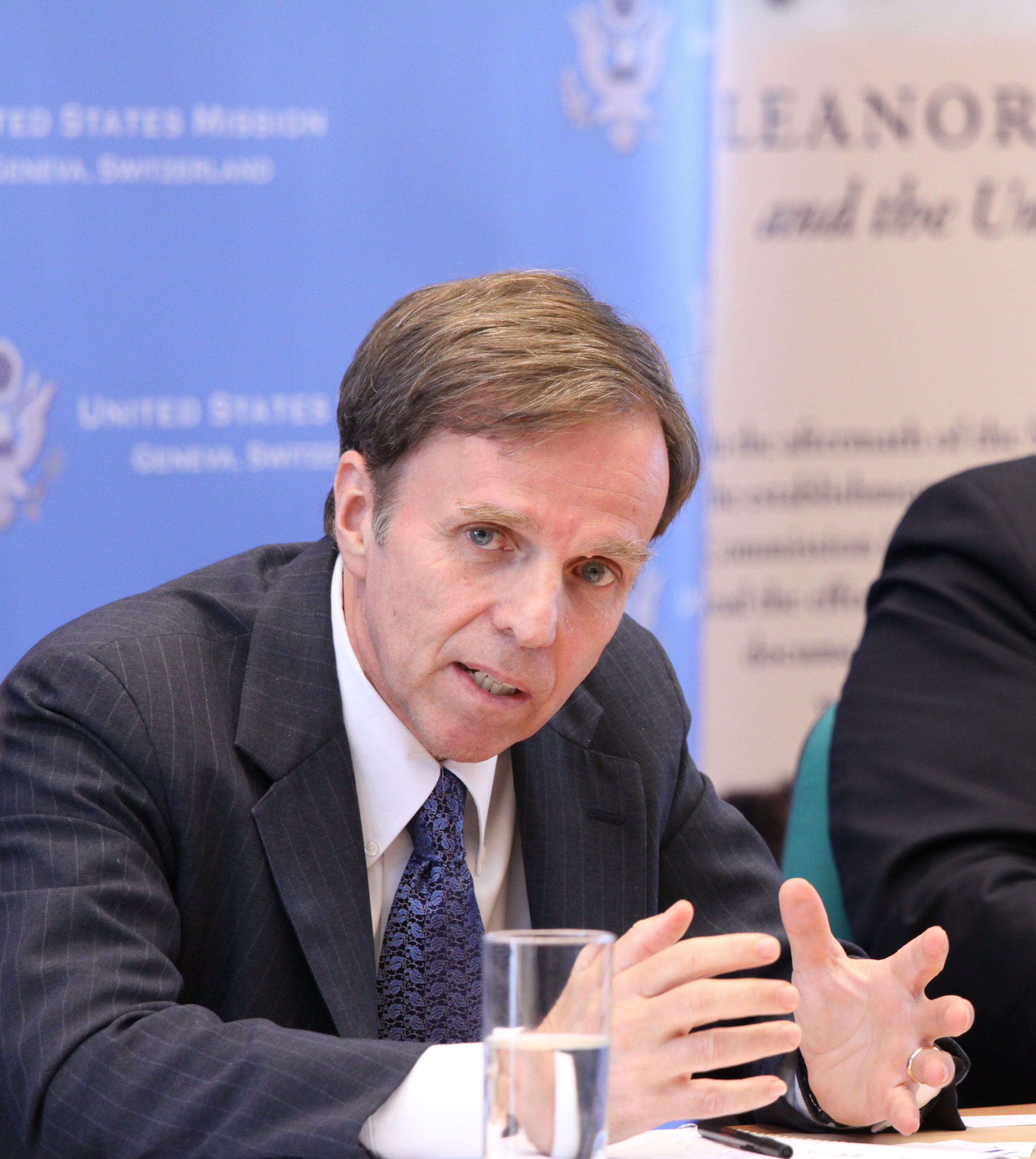 Michael Posner, Assistant Secretary of State for Democracy, Human Rights speaking at a September 28 Press conference at the U.S. Mission to the United Nations in Geneva. Harold Hongju Koh, State Department Legal Advisor also participated in the press conference. Credit: U.S. Mission / Eric Bridiers